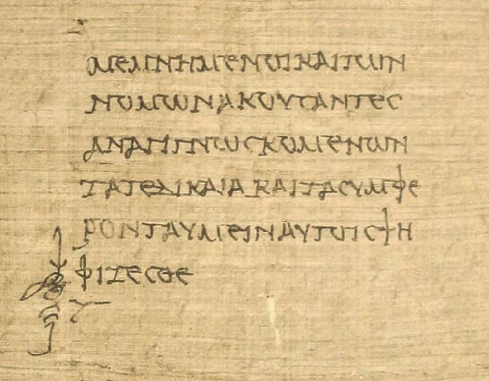 Detail of P.Lit.Lond. 134, with the final column of Hyperides' In Philippidem, the end of which is marked in the left margin by a coronis and a forked paragraphos (or diple obelismene).